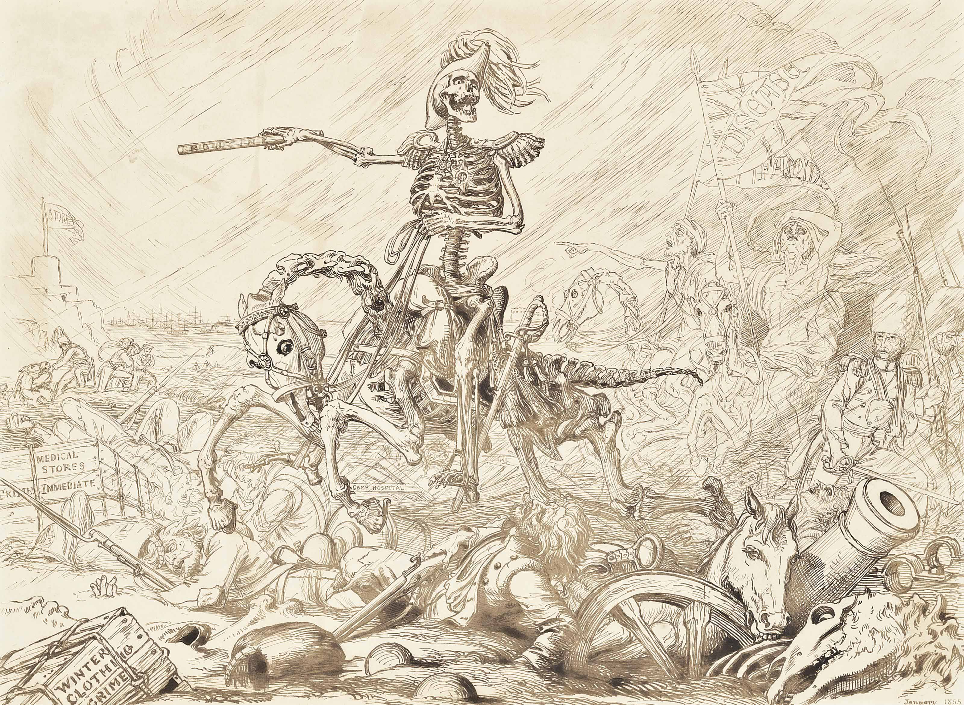 «Disease and famine are depicted following the figure of Death. Boxes labelled 'Winter Clothing' and 'Medical Stores' lie unopened and rotting and Death holds as a baton a despatch marked 'Routine'. All this underlines the logistic chaos that existed during this anything but glamorous and heroic war commemorated in Tennyson's 'Charge of the Light Brigade'. Paton was urged to publish this design but he refused to do so fearing it might be regarded as levelled at Lord Raglan, C-inC. British Forces in the Crimea.» (Auld, Fact and Fancy..p.13.) (see source)